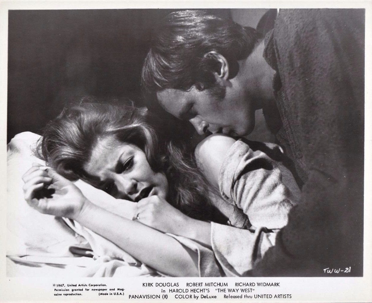 Katherine Justice and Michael Witney in The Way West, 1967. Promotion photo.